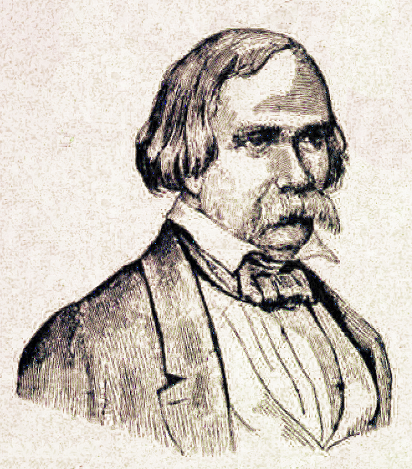 Ned McGowan, from the 1917 reprint of Narrative of Edward McGowan including a full account of the Author's Adventures and perils while persecuted by the San Francisco Vigilance Committee of 1856. Published by the Author, 1857.